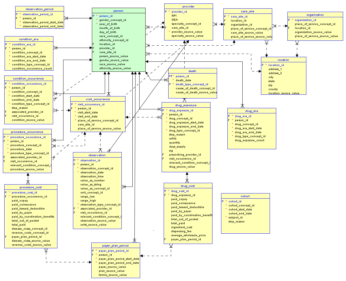 Common Data Model ER diagram